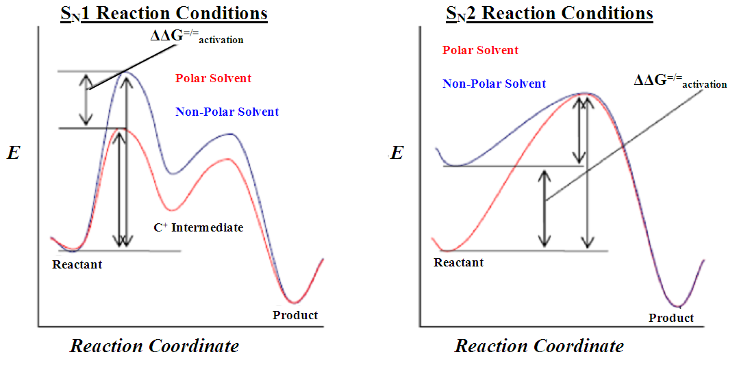 Comparison of solvent effects on SN1 and SN2 reactions